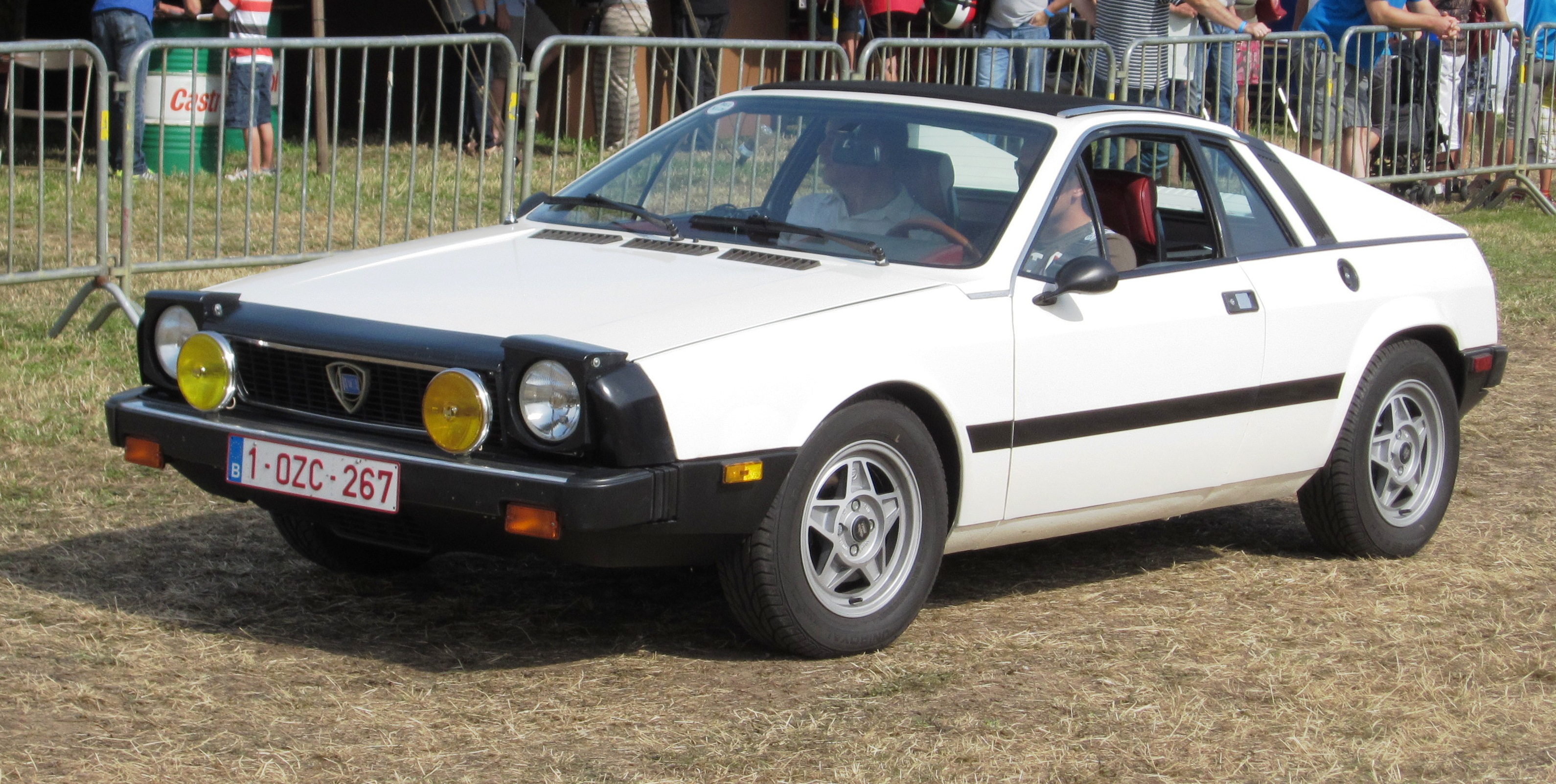 US spec Lancia Scorpion